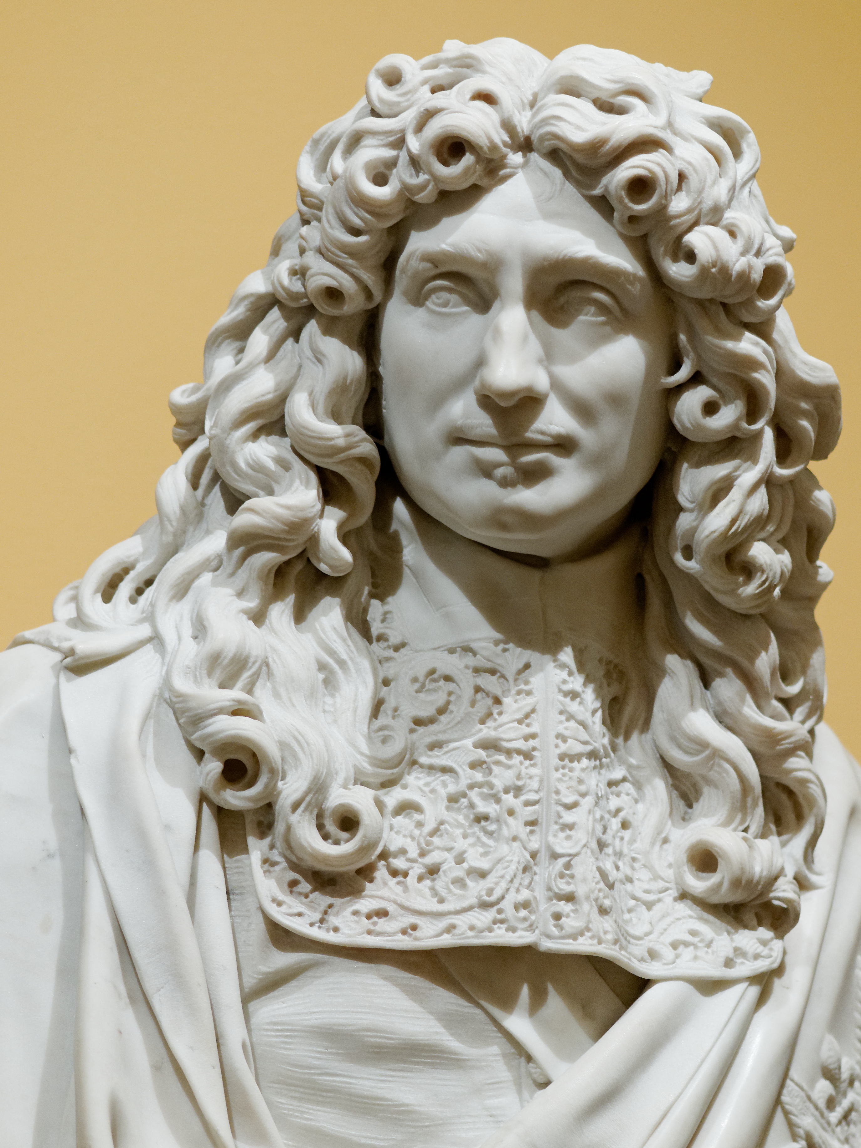 Detail of a portrait of Jean-Baptiste Colbert (1619 - 1683) .